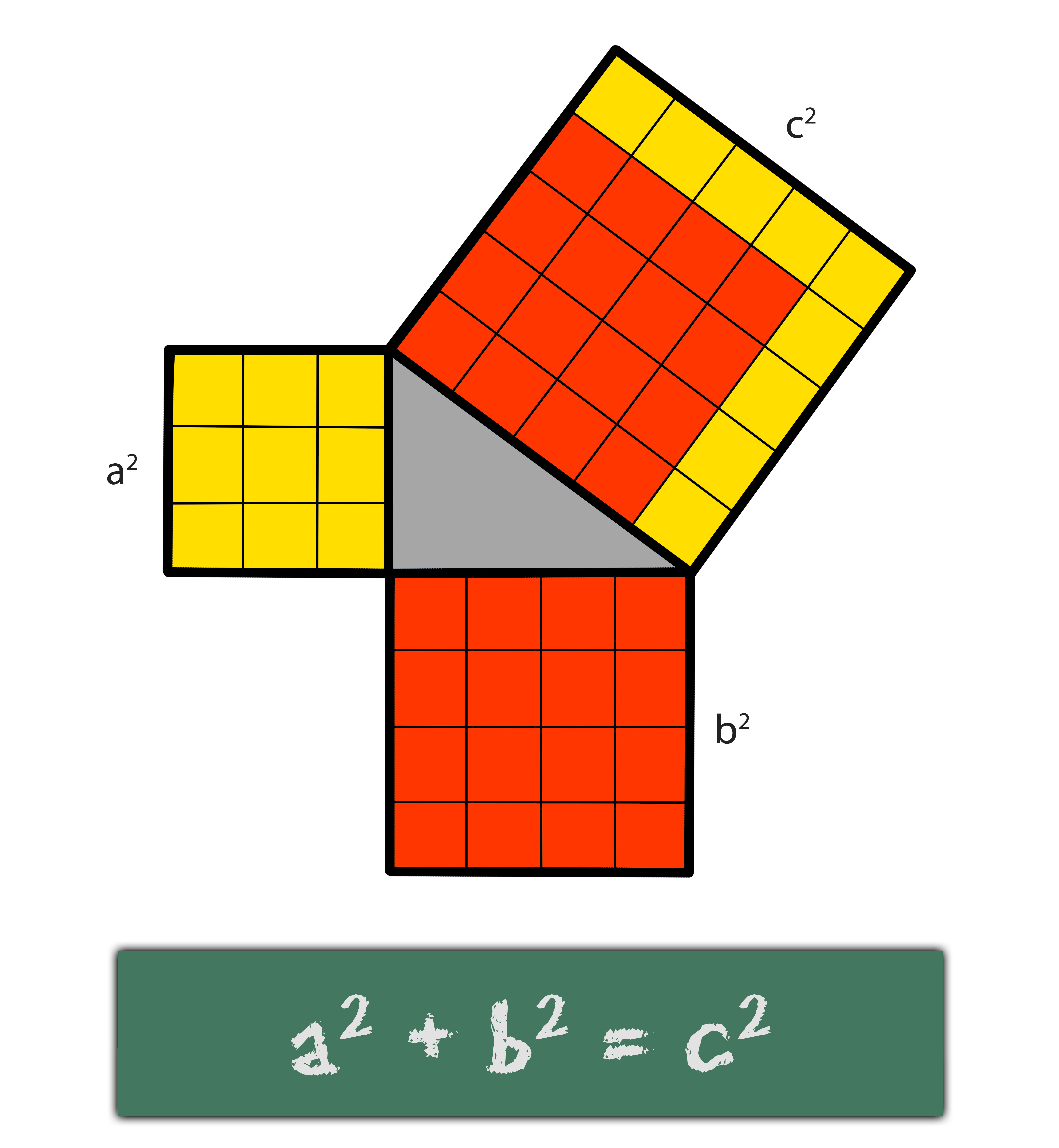 The theorem of Pythagoras graphic